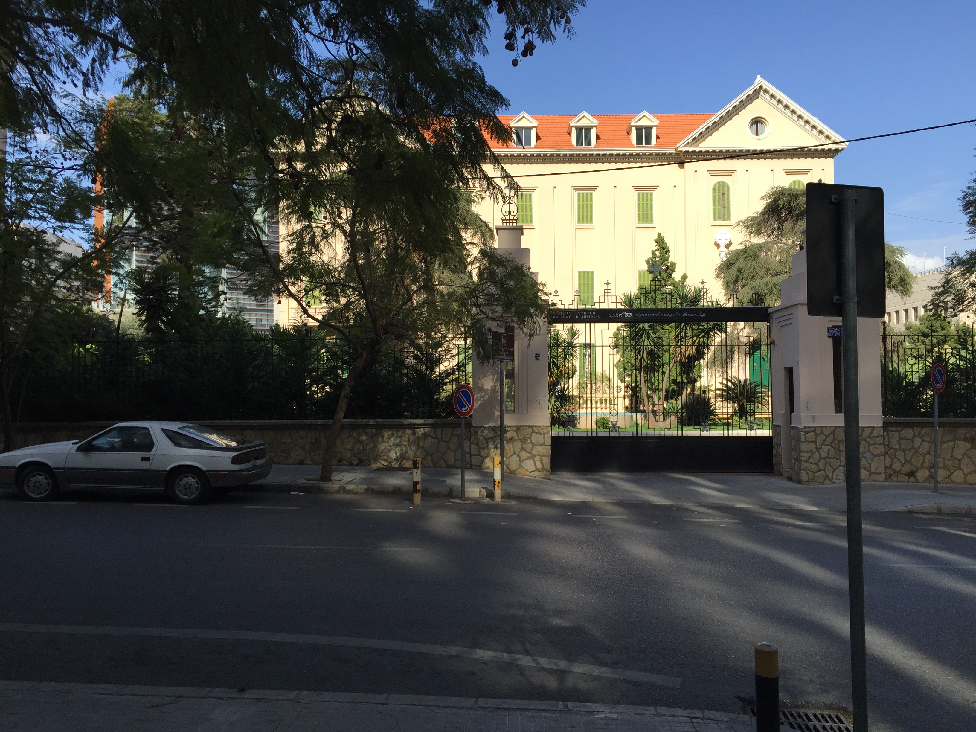 This is a picture of a landmark palace in the Neighborhood of Badaro in Beirut, Lebanon